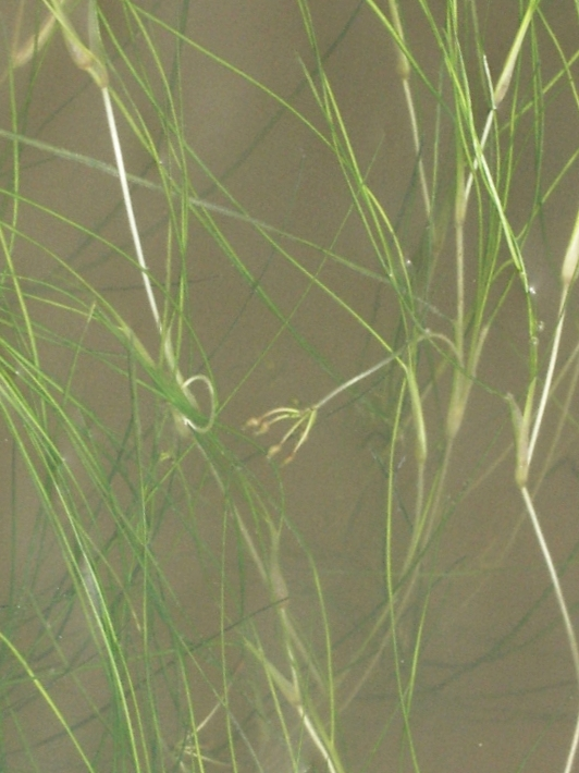 Ito, Y. (2013) Aquatic Plant Surveys in Asia, Australia, Europe, and N. America. Bunrui 13: 47-60.